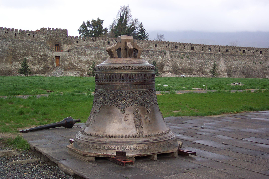 Bell